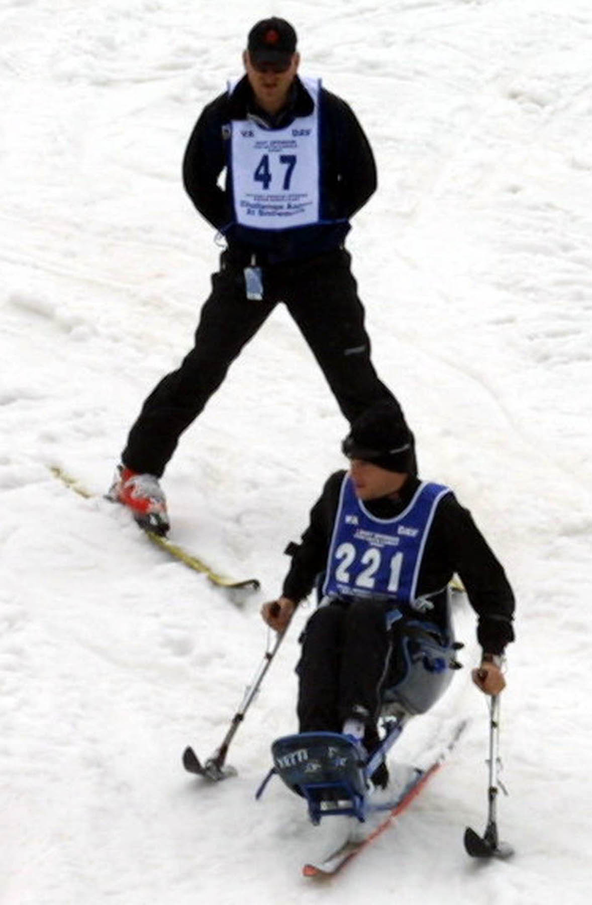 Cpl. Brian Wilhelm takes a run on a mono-ski at the annual National Disabled Veterans Winter Sports Clinic, held April 4-9 at Snowmass Village, Colo. Wilhelm, who is on active duty at Fort Carson, Colo., lost his right leg below the knee as a result of an Oct. 7 rocket propelled grenade attack near Ballad, Iraq. He is working with Capt. David Rozelle, who lost his right foot after a land mine explosion in Hit, Iraq, to establish a support group for Soldiers with prosthetics